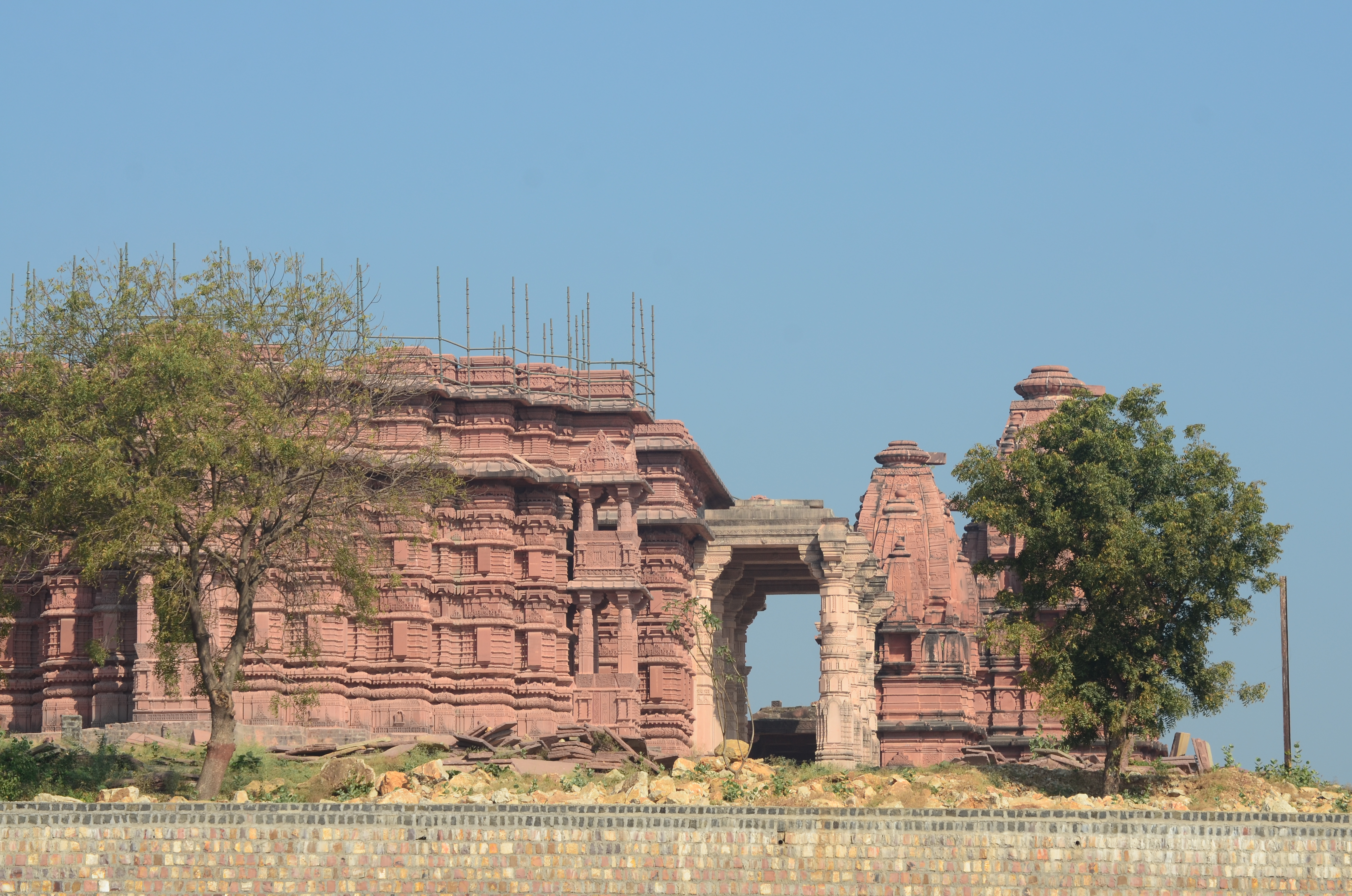 Unfinished Temple built under guidence of vidhyasagar ji Maharaja.